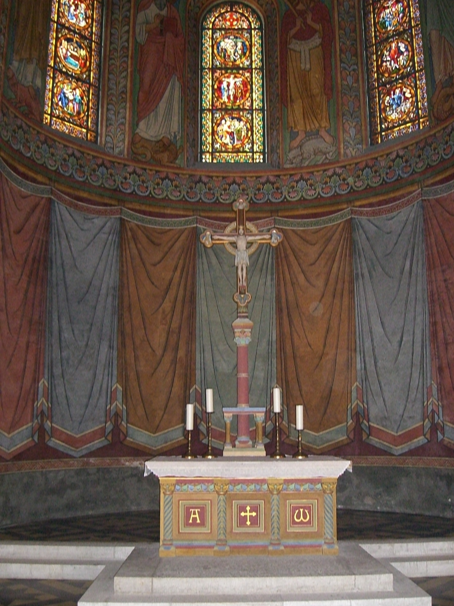 Altar in the monastery church (Kaiserdom) in Königslutter.